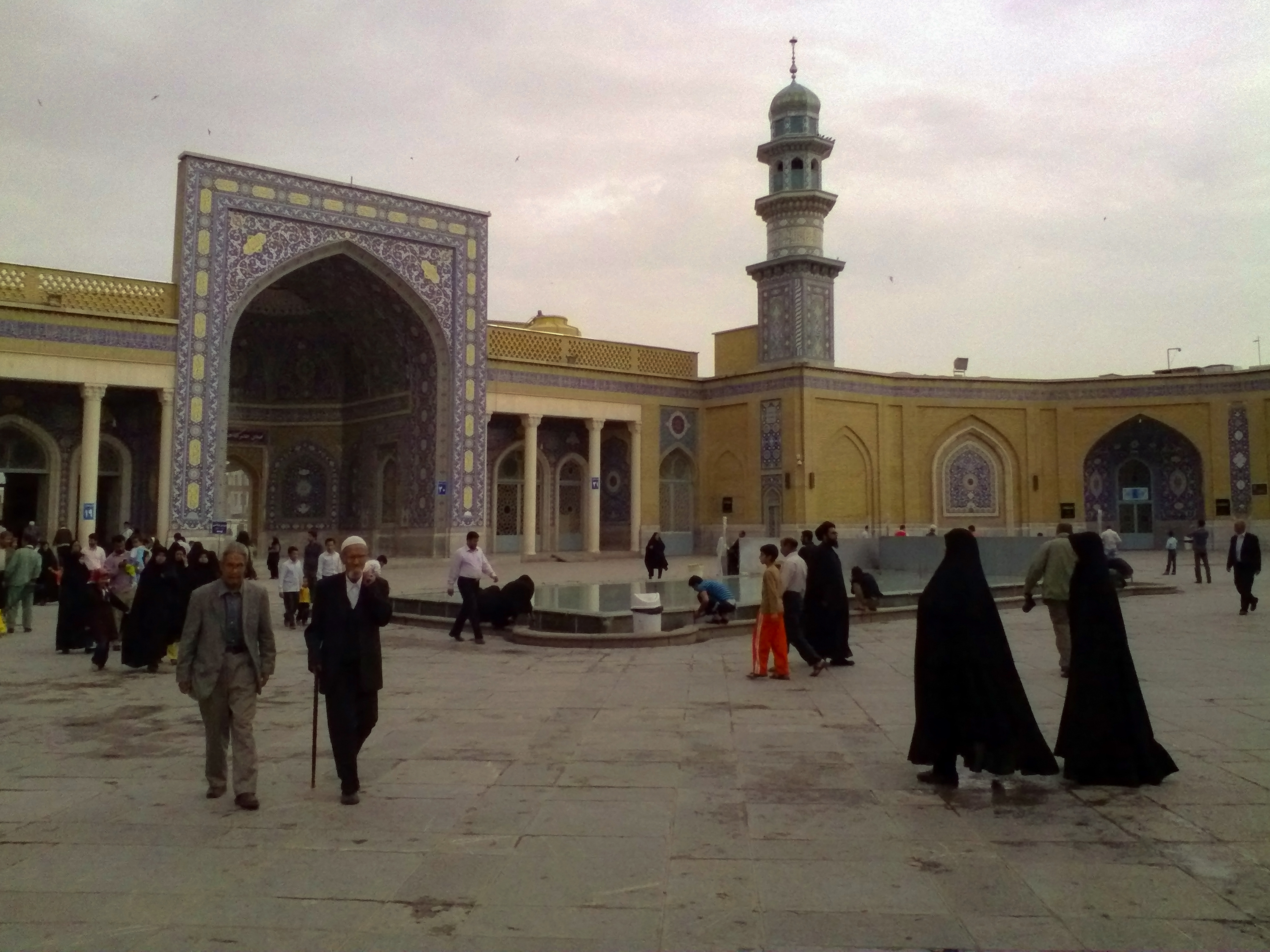 The shrine of Fatema Mæ'sume (sister of Imām ʻAlī ibn-Mūsā Riđā) is located in Qom which is considered by Shia Muslims to be the second most sacred city in Iran after Mashhad. Fatima Masumeh was the sister of the eighth Imam 'Ali al-Rida and the daughter of the seventh Imam Musa al-Kadhim (Tabari 60). In Shia Islam, women are often revered as saints if they are close relatives to one of the Twelver Imams. Fatima Masumeh is therefore honored as a saint, and her shrine in Qom is considered one of the most significant Shi'i shrines in Iran. Every year, thousands of Shi'i Muslims travel to Qom to honor Fatima Masumeh and ask her for blessings. For more information on the history of Fatima Masumeh, see Fatima bint Musa.